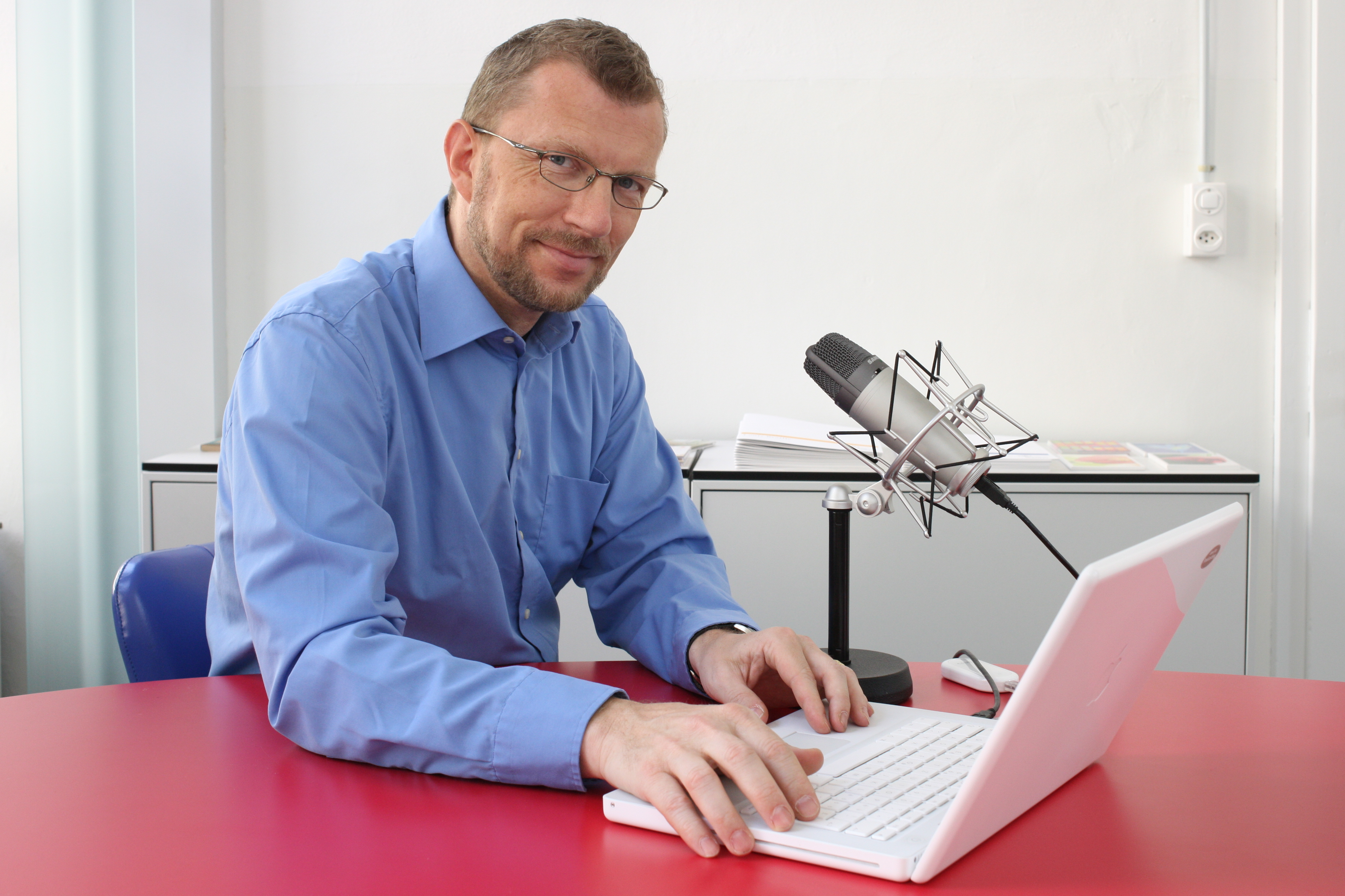 Juerg Vollmer, Journalist